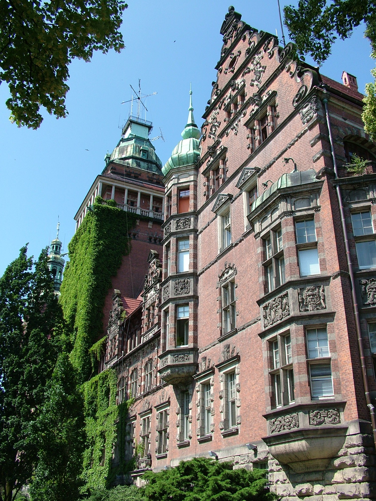 Provincial office in Szczecin